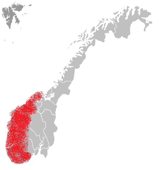 Map of Norway with the Norwegian Bible Belt highlighted in red.